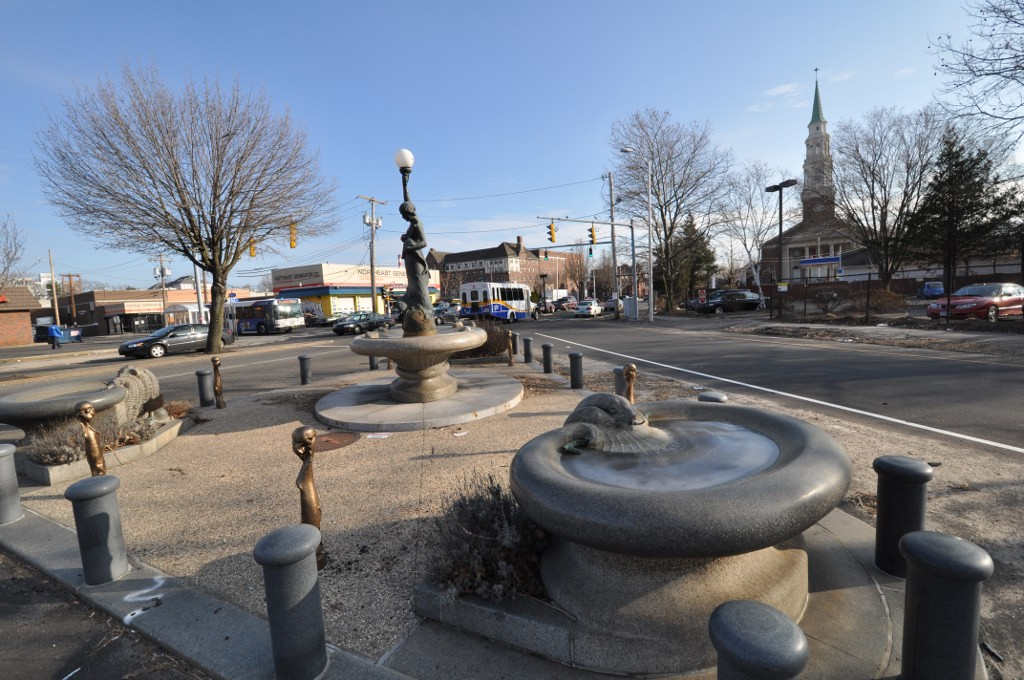 Wheeler Memorial Fountain, Bridgeport, Connecticut